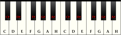 Illustration of a klaviatur (keyboard) with norwegian/german notes. (H not B) Made with adobe illustrator, by Wintermute 18:27, 26 Feb 2005 (UTC).